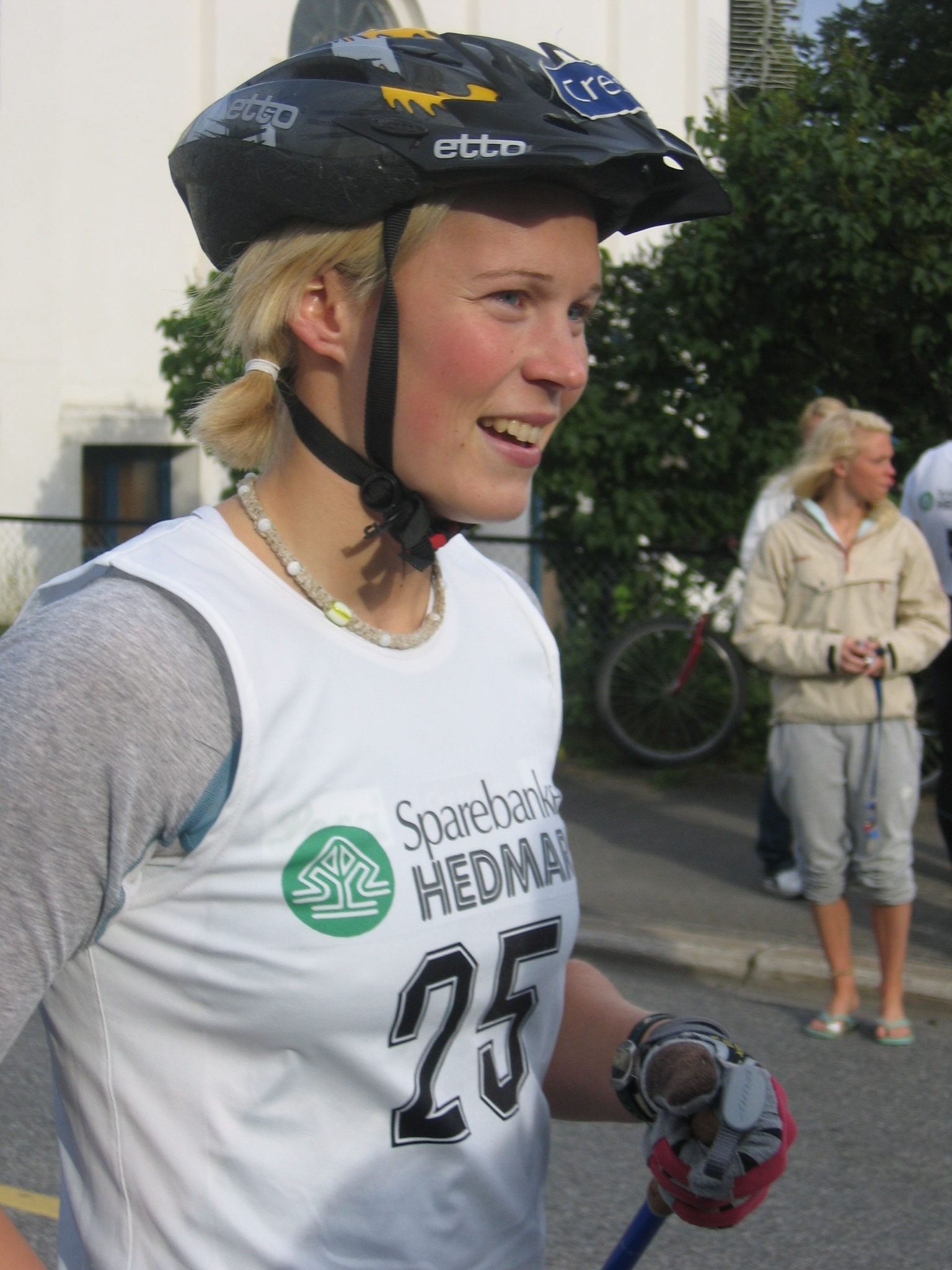 The Norwegian cross-country skier Guro Strøm Solli under Kirkebakken Grand Prix 2007 in Hamar, Norway.